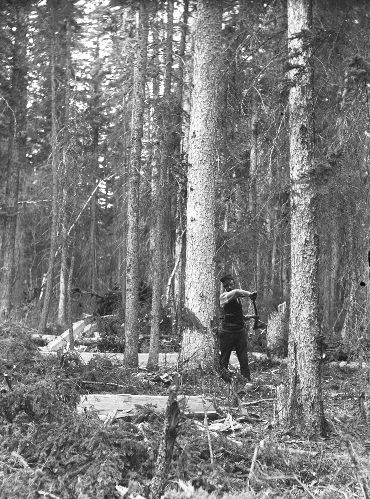 Unidentified man (possibly Robert Brebner) clearing trees from the Brebner homestead, ca. 1900. Spruce Grove, Alberta. From the Robert McKay Brebner fonds, PR2009.0499/30.